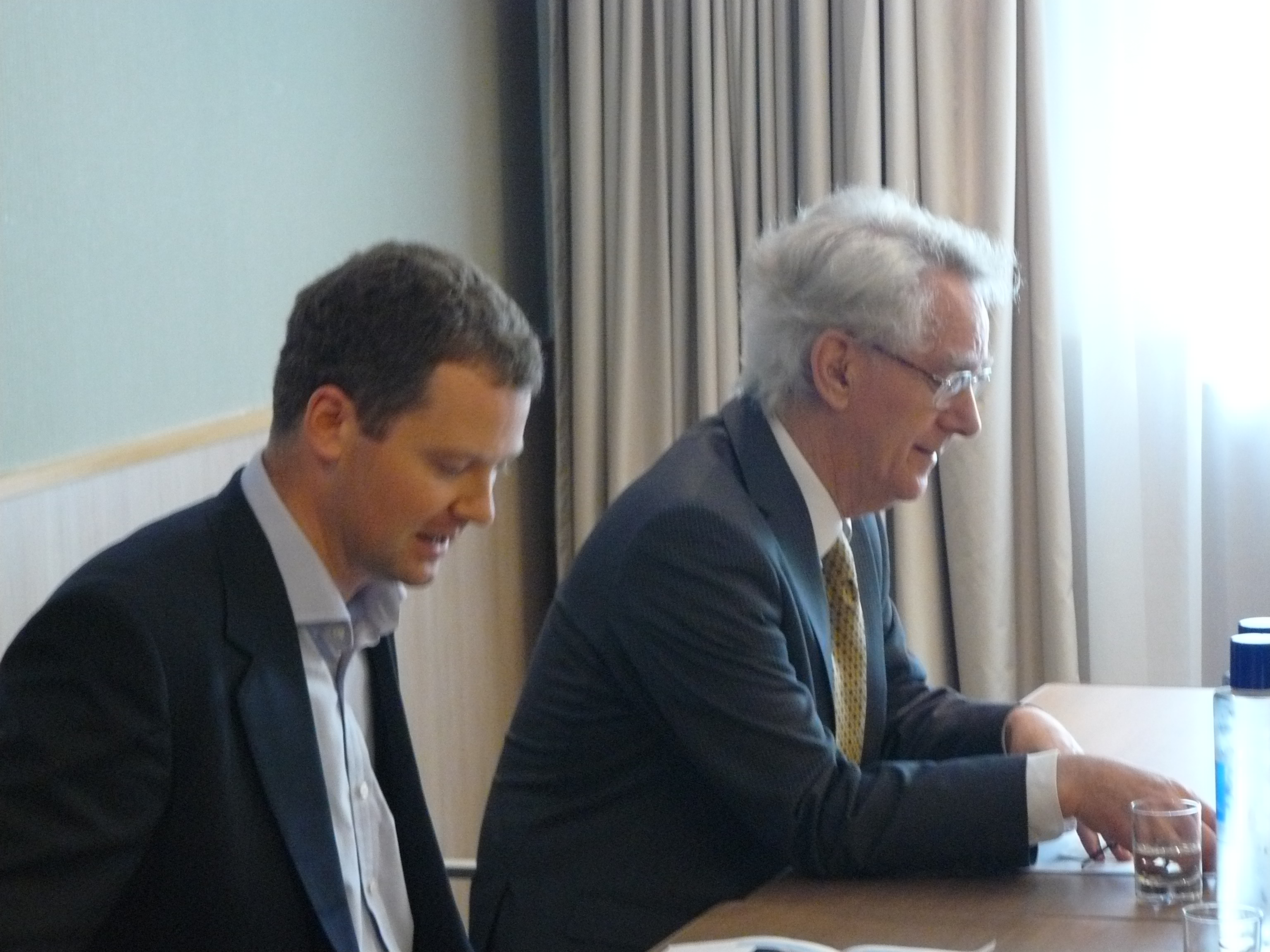 Policy Exchange Conservative Conference Fringe Event: Next steps for localism. 03.10.11